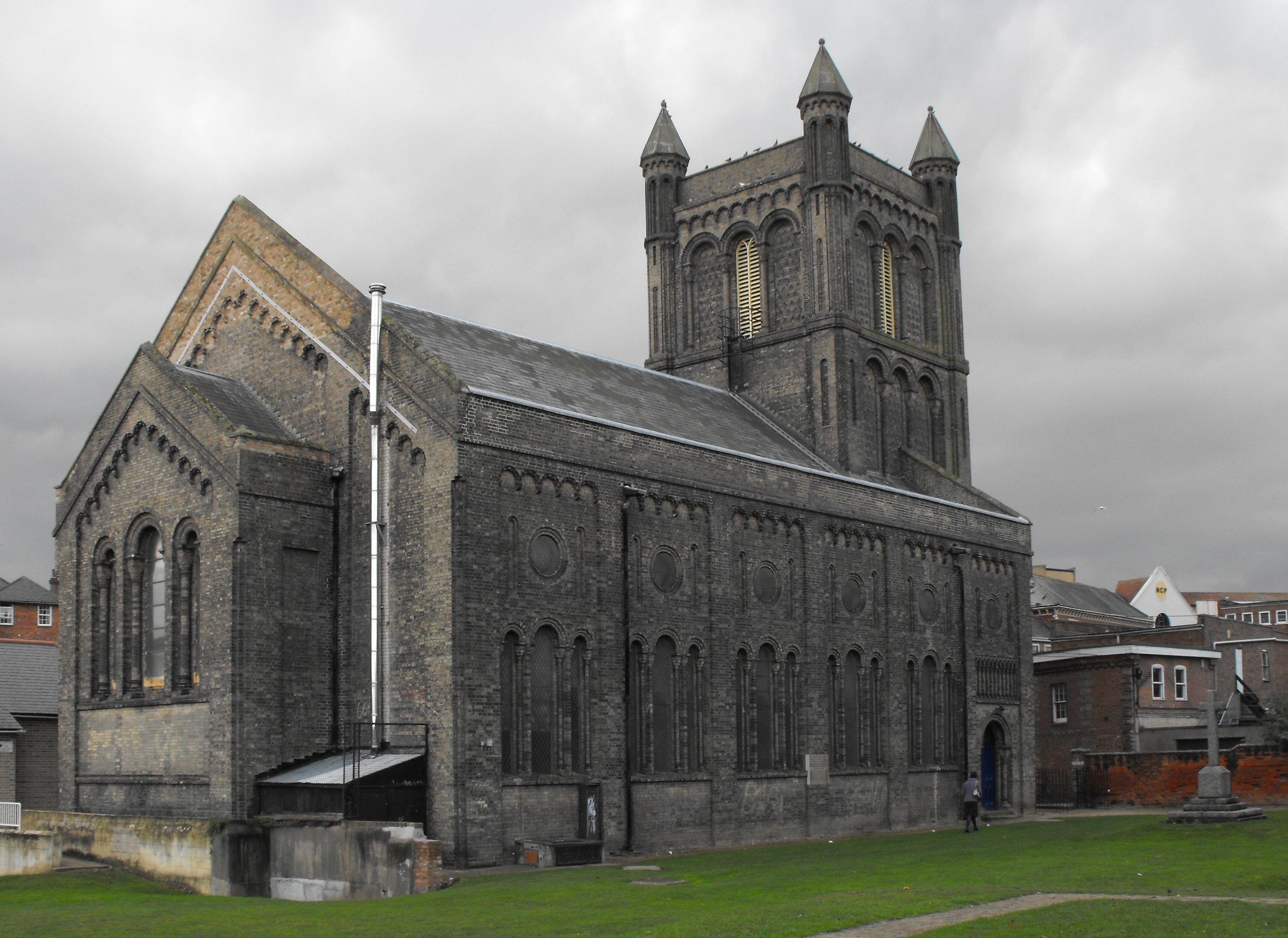 Anglican church of St Botolph, Colchester